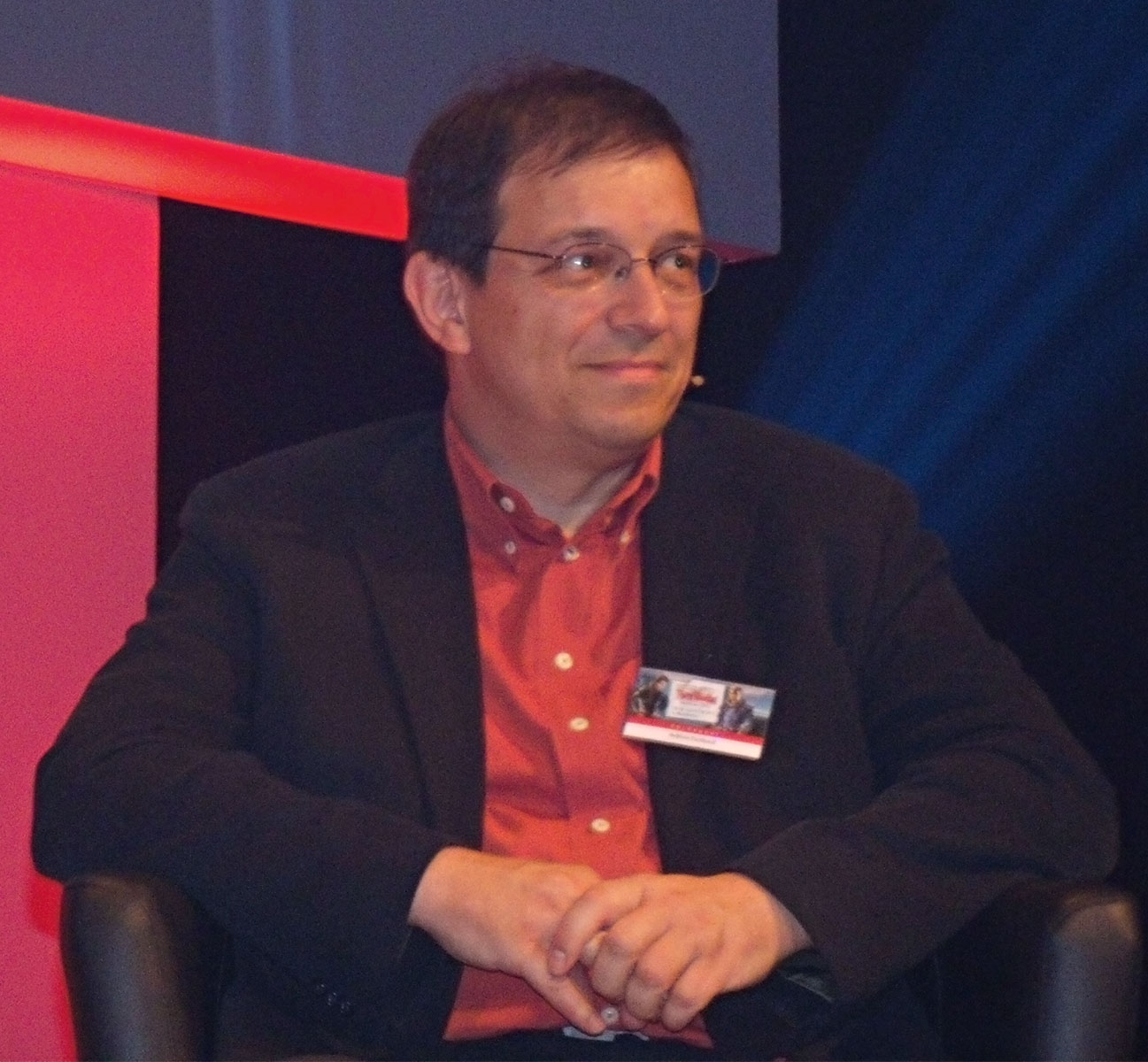 german science fiction writer Andreas Eschbach at Perry Rhodan Weltcon october 2011 in Mannheim